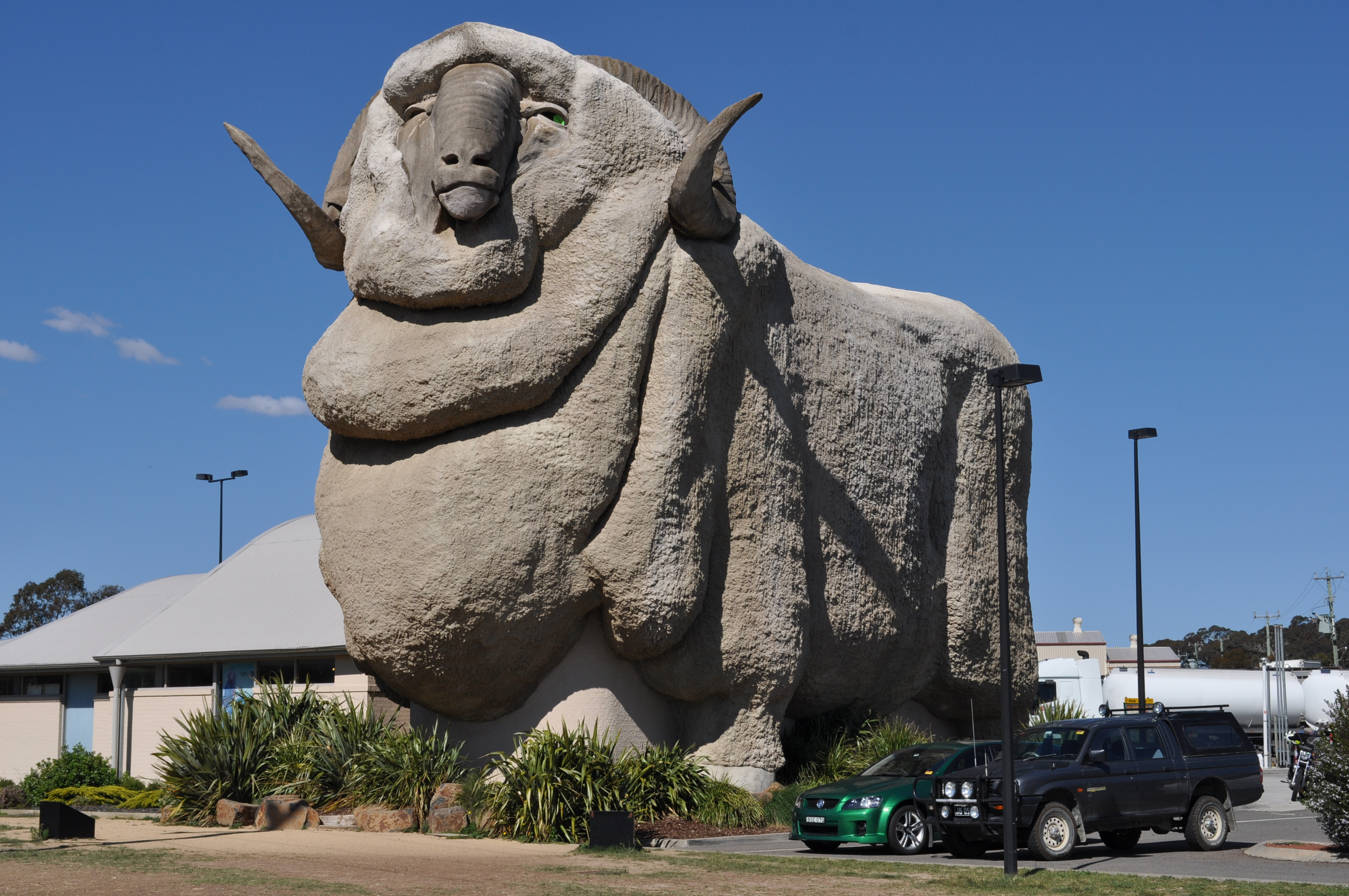 The Big Merino in its new home near the expressway. Building on the left is the visitor's centre, through which you can enter the merino.